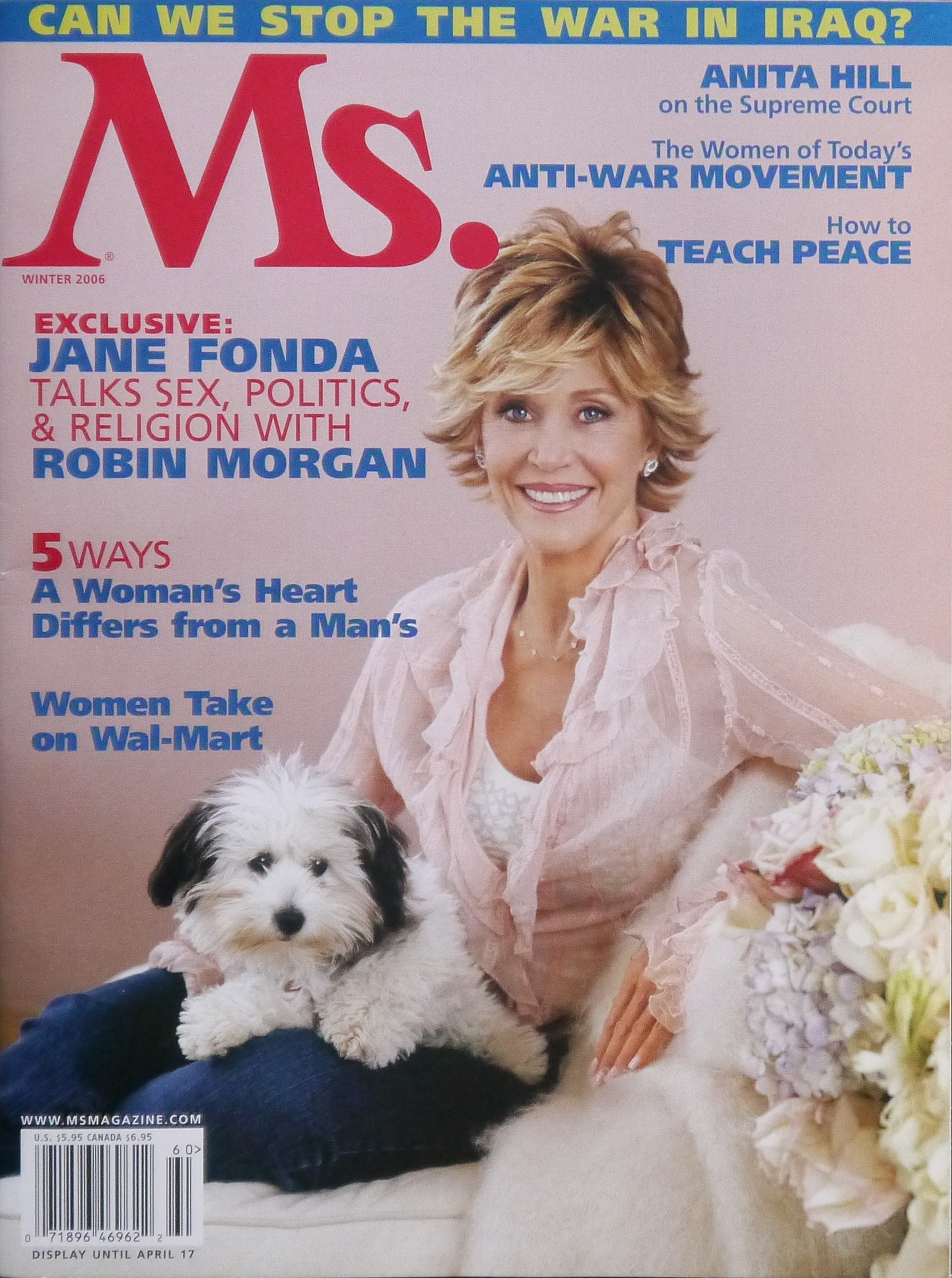 Ms. magazine, Winter 2006 with Jane Fonda